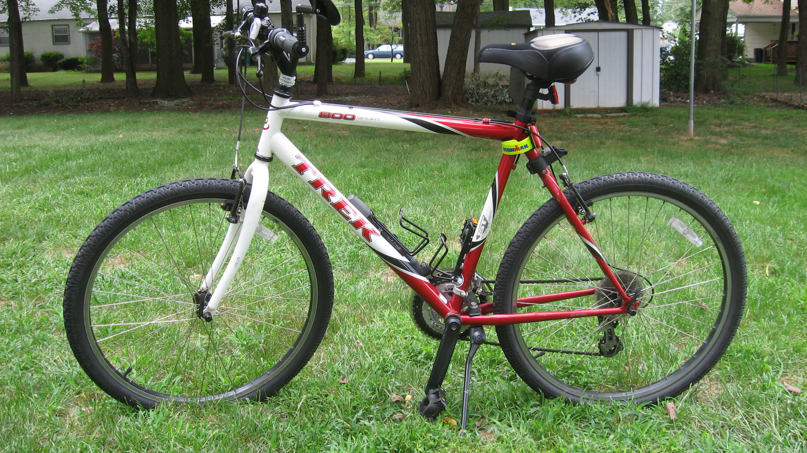 2002 trek 800 Sport mountainbike